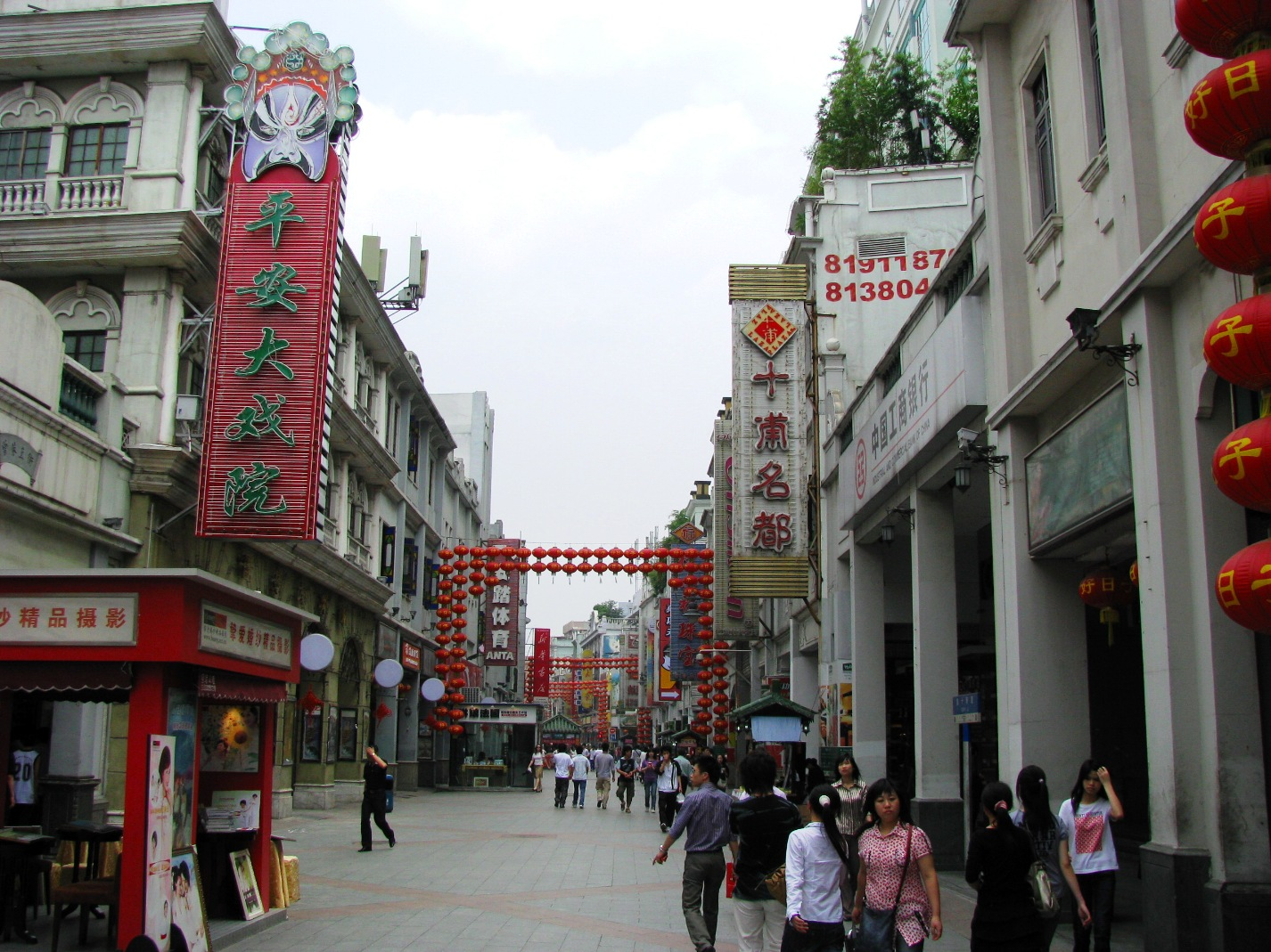 Dishifu Lu Car-free zone in Guangzhou, China.中国广州第十甫步行街。